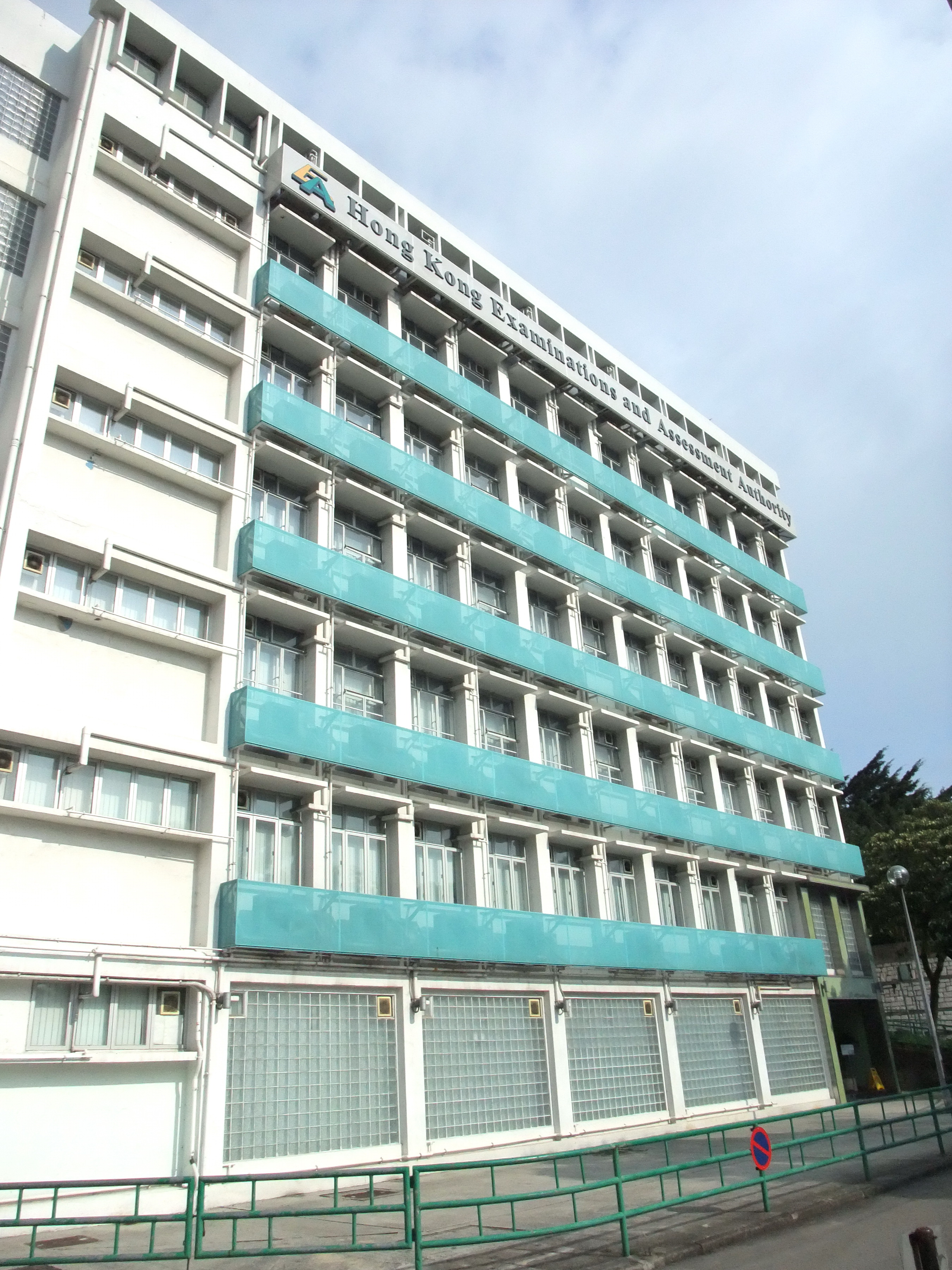 Hong Kong Examinations and Assessment Authority, Lai King Assessment Centre, Lai King Estate, Kwai Chung, Hong Kong.